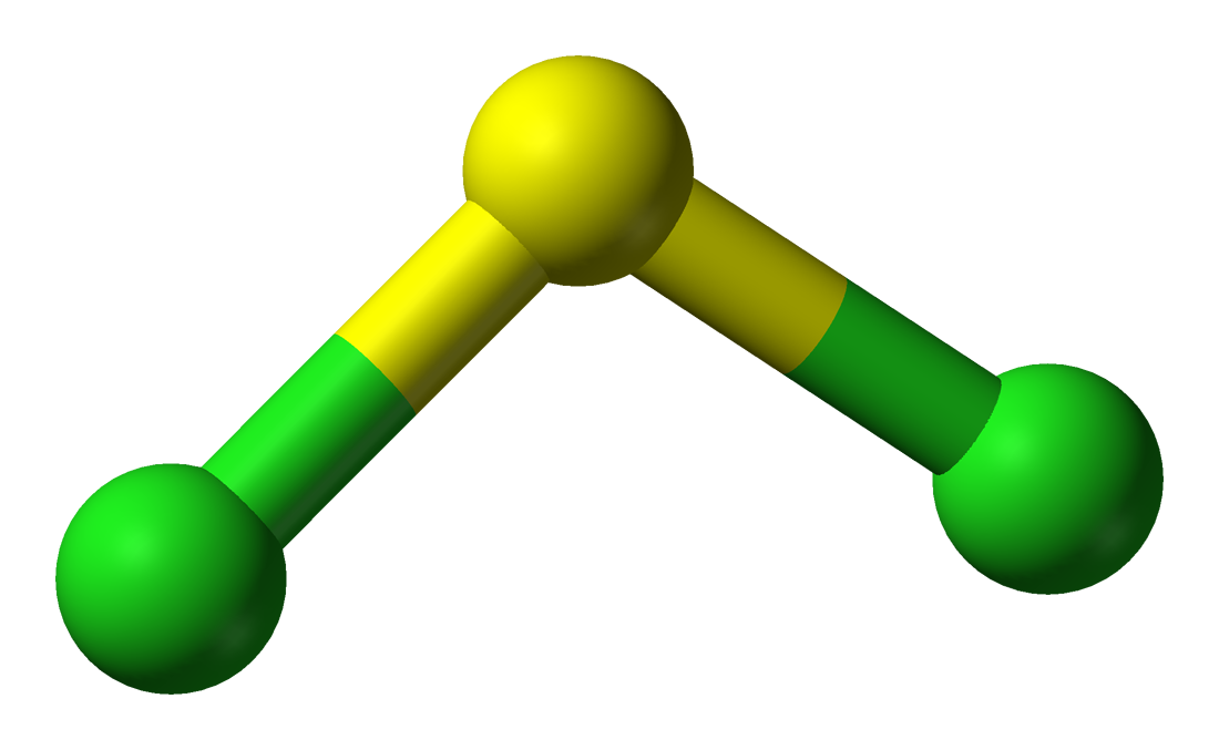 Ball-and-stick model of the sulfur dichloride molecule, SCl2